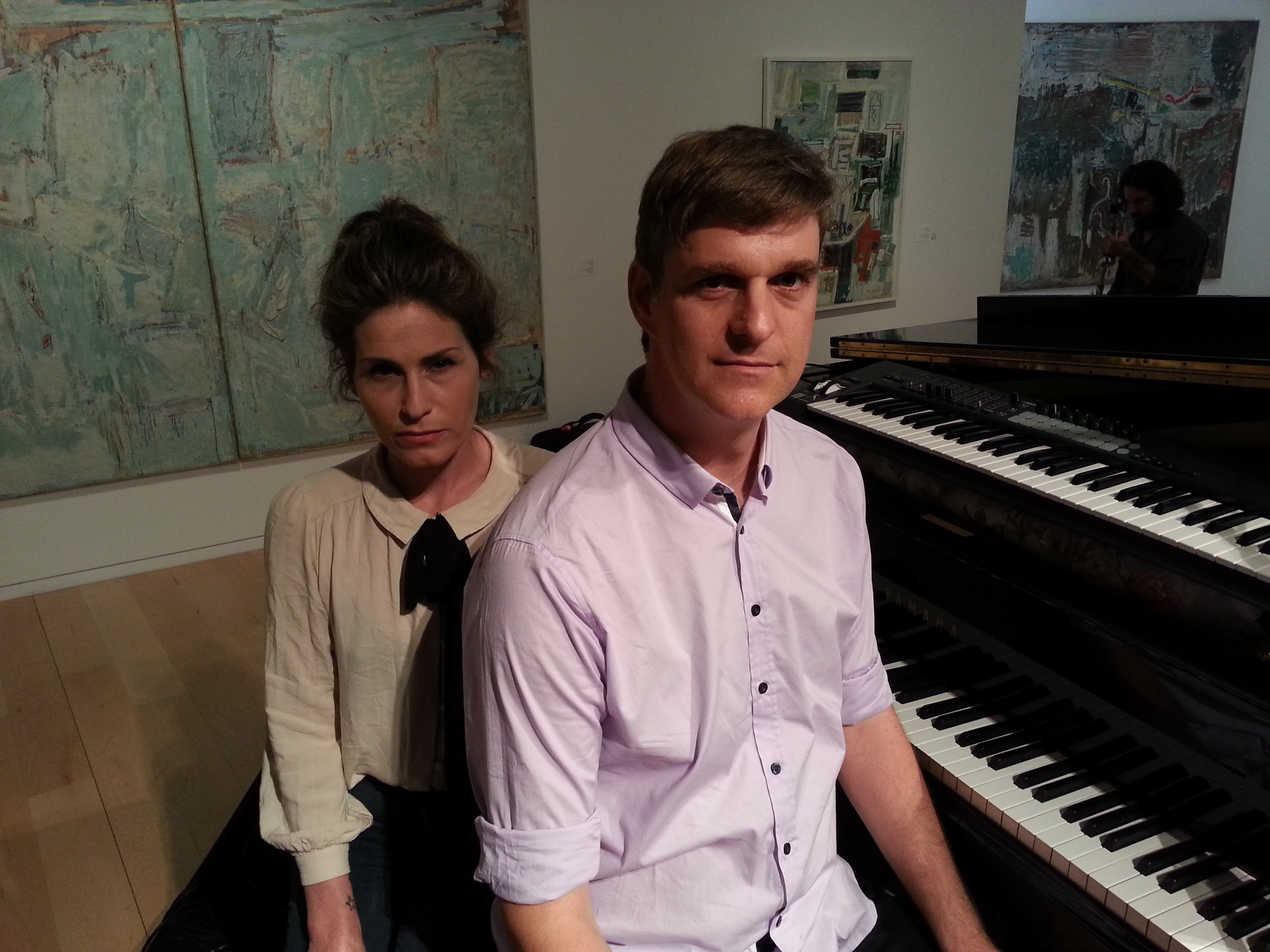 Roy Yarkoni and Karni Postel at the Piano Festival Tel Aviv 2014 Picture taken at Tel Aviv Art Museum, Israel